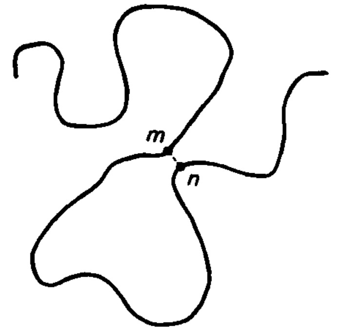 excluded volume